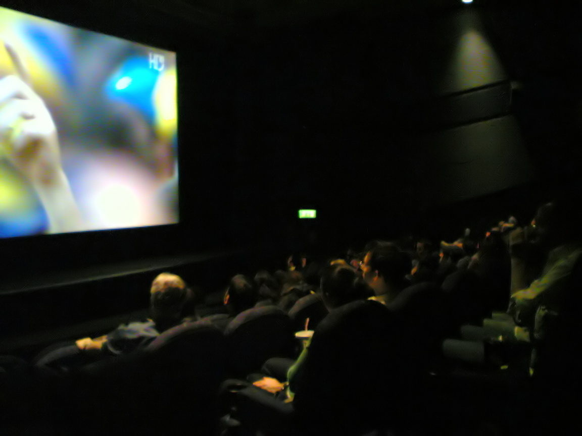 Football (soccer) fans watching an England match in a cinema, UK. Screen is displaying an HD-1 picture.